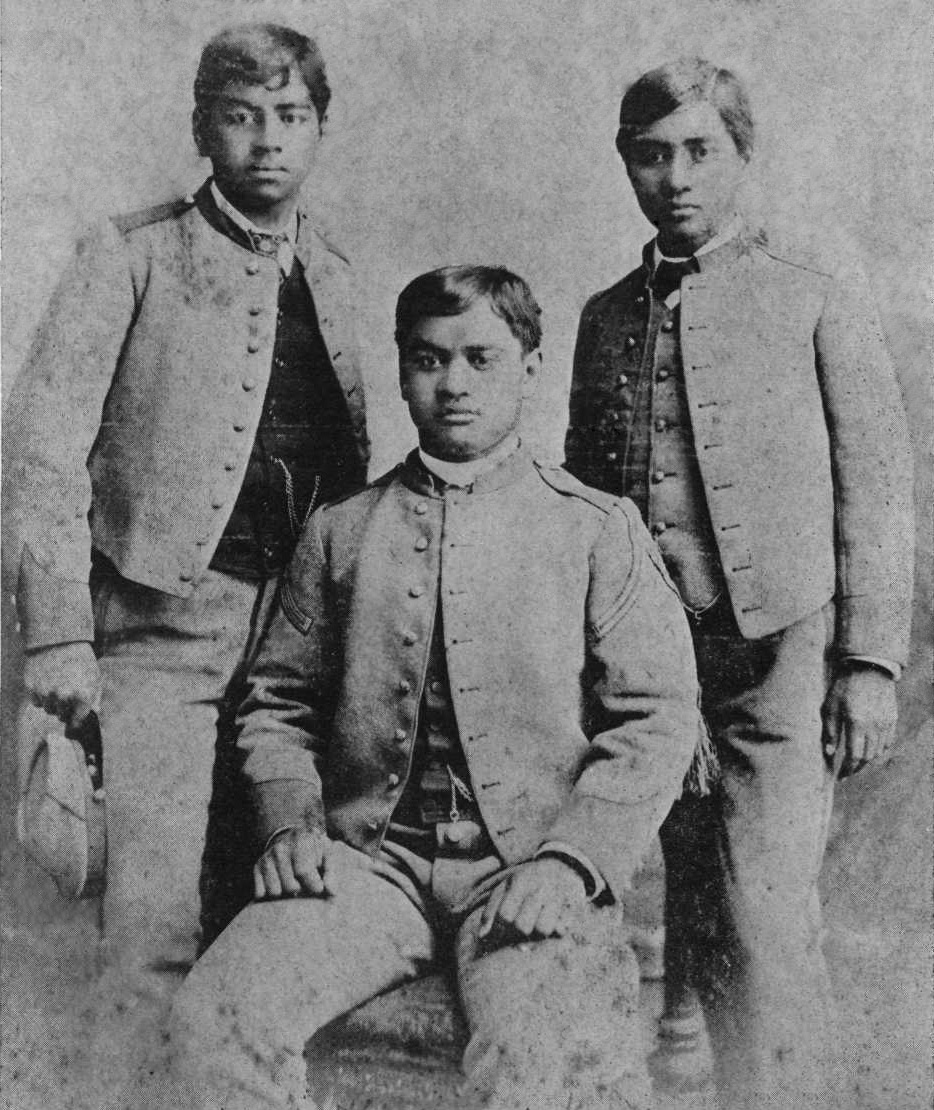 Three Princes of the Kingdom of Hawaii attended, St. Matthews Hall, the Episcopal military school of St. Matthew's Church, founded by Revered Brewer in 1865 in San Mateo, California. (That school now thrives as St. Matthew's Episcopal Day School.) The princes attended from 1883-1887. They are Jonah Kūhiō Kalanianaʻole (left, 1871–1922), David Kawānanakoa (center, 1868–1908) and Edward Abnel Keliʻiahonui (right 1869–1887). On Sunday July 19, 1885, in Santa Cruz, "the young Hawaiian princes were in the water (at the mouth of the San Lorenzo), enjoying it hugely and giving interesting exhibitions of surf-board swimming as practiced in their native islands". (Beach Breezes: July 20, 1885, The Daily Surf, Santa Cruz, CA.) As such, they were the first to bring surfing to mainland America.